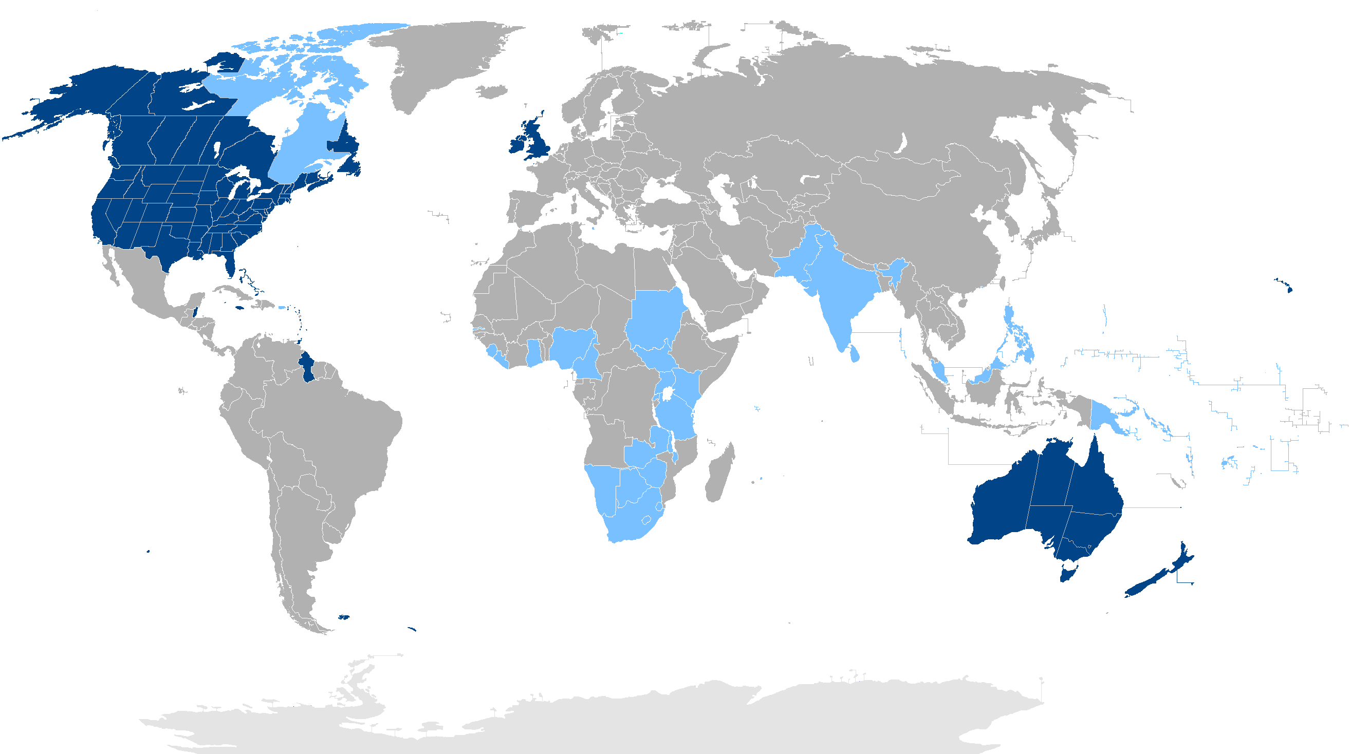 States where English or an English-based creole is the native language of the majority. States where English is an official language, but not the majority language.